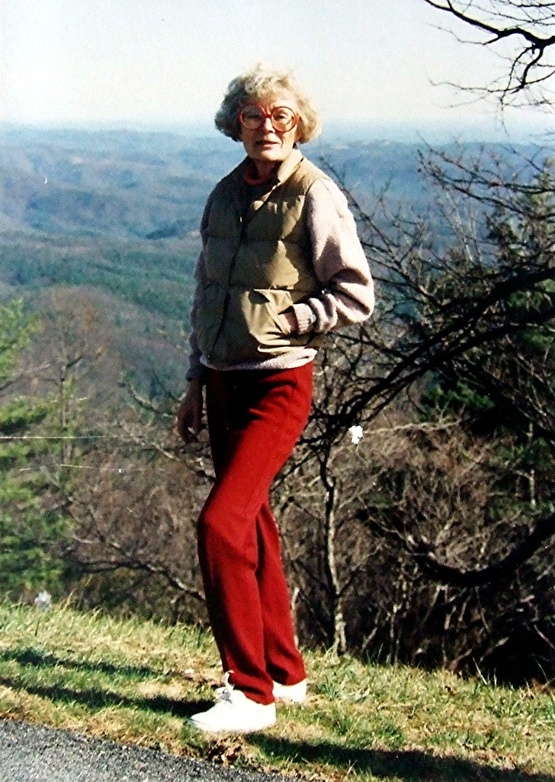 Author Barbara Holland in Bluemont, Virginia, in the 1980s